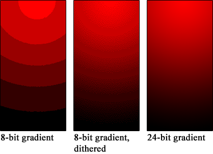 an example of color banding, created by me for the public domain